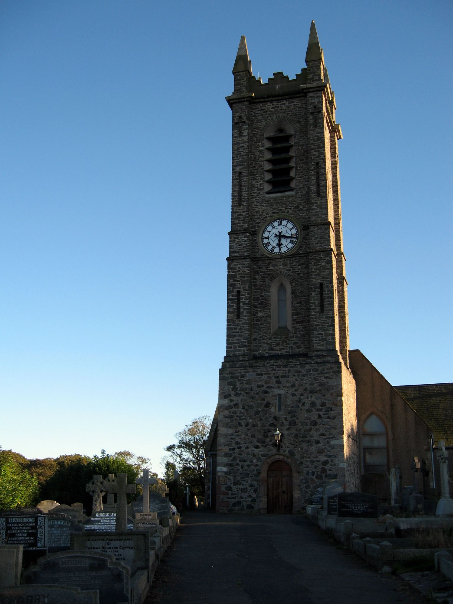 Donaghadee Parish Church of Ireland Photo taken by myself, available at